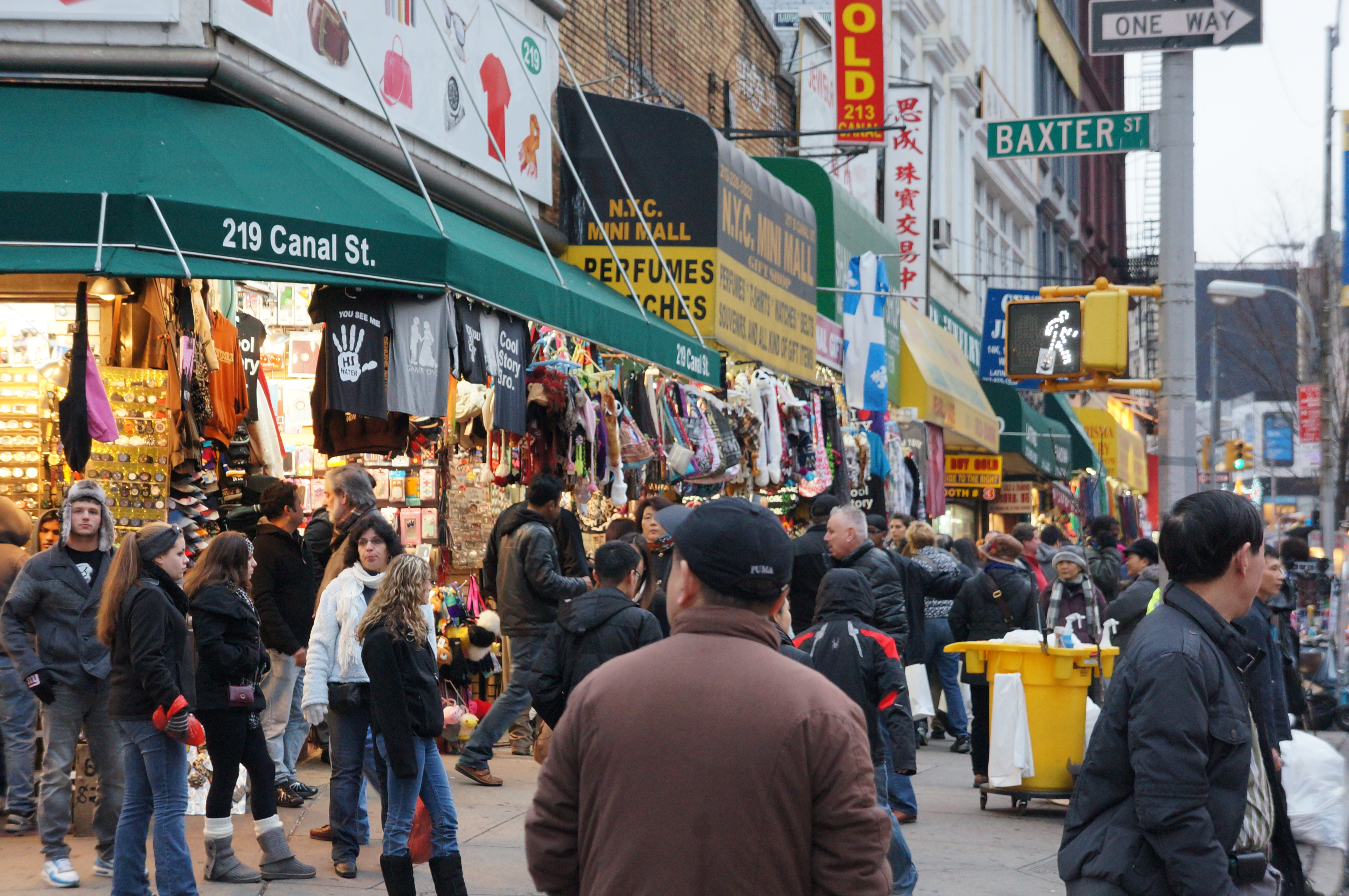 Looking down Canal Street on an overcast day.